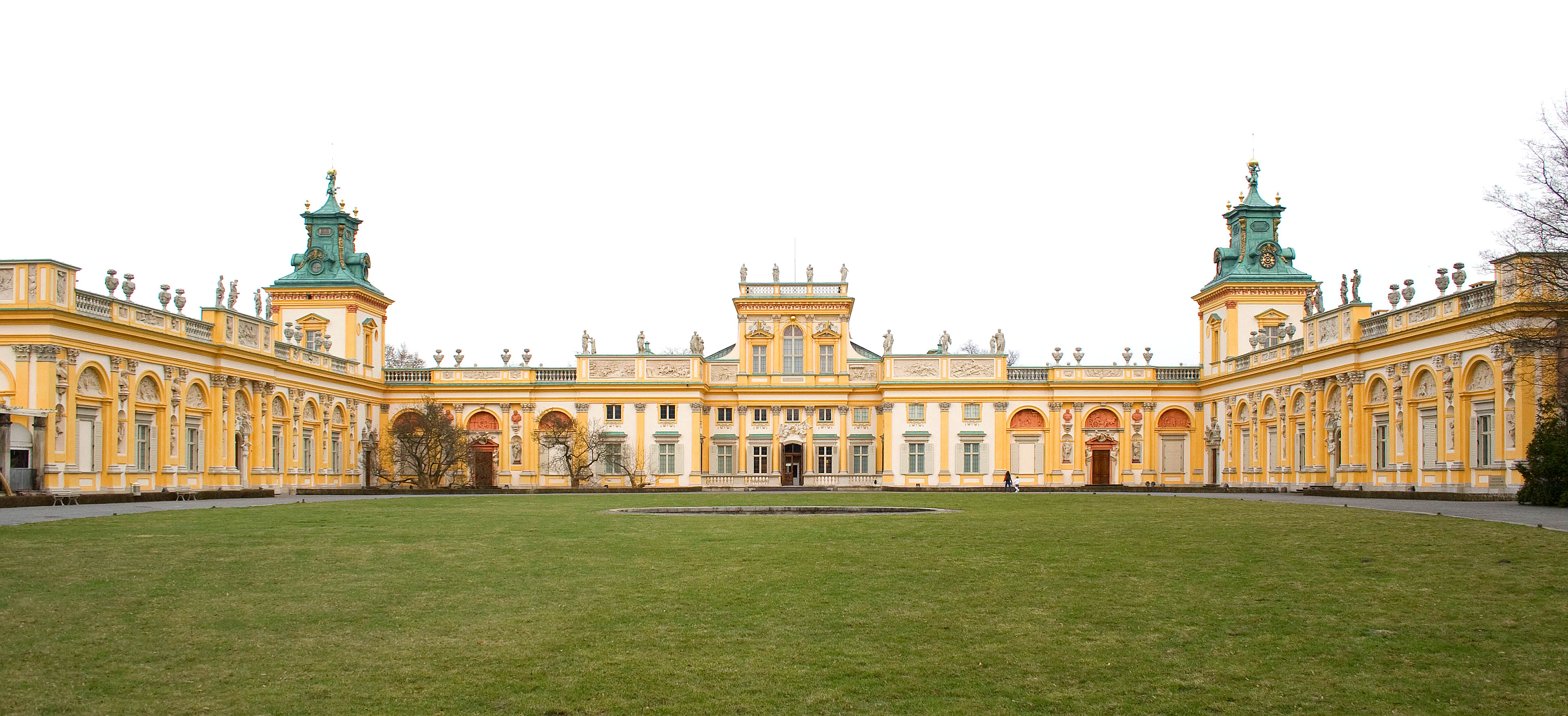 Exterior of the Wilanów Palace, Poland